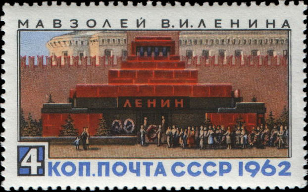 A USSR stamp of 1962. Vladimir Lenin's Mausoleum. CFA #2760.